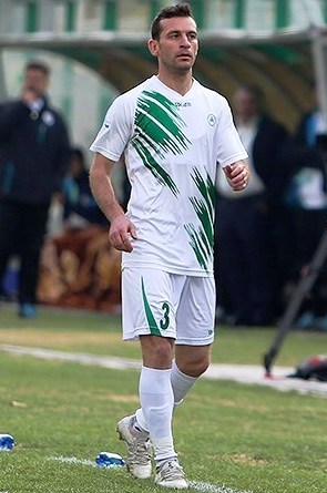 Walid Ismail.